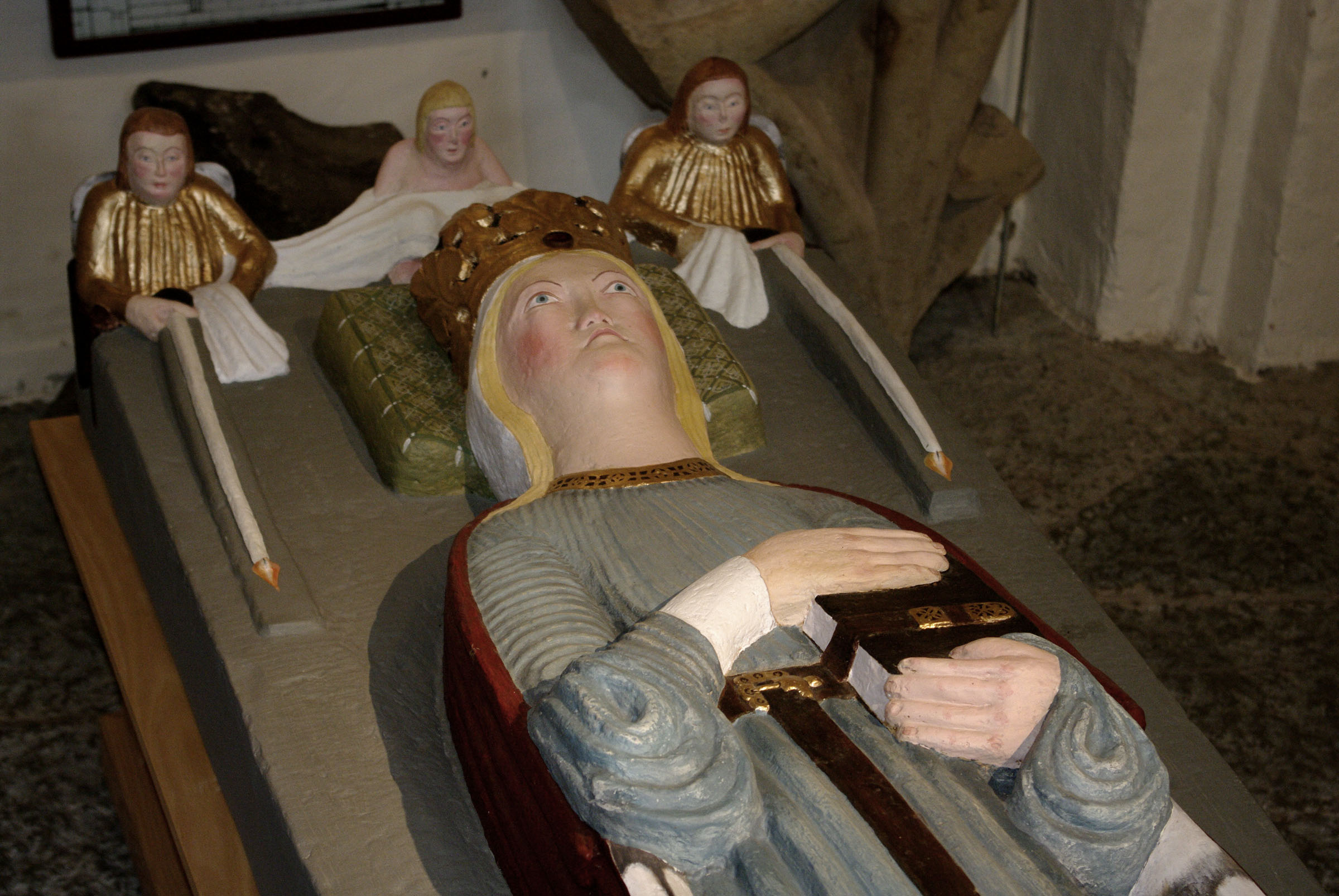 The sarcophagus of the queen Catherine with reconstructed painting.